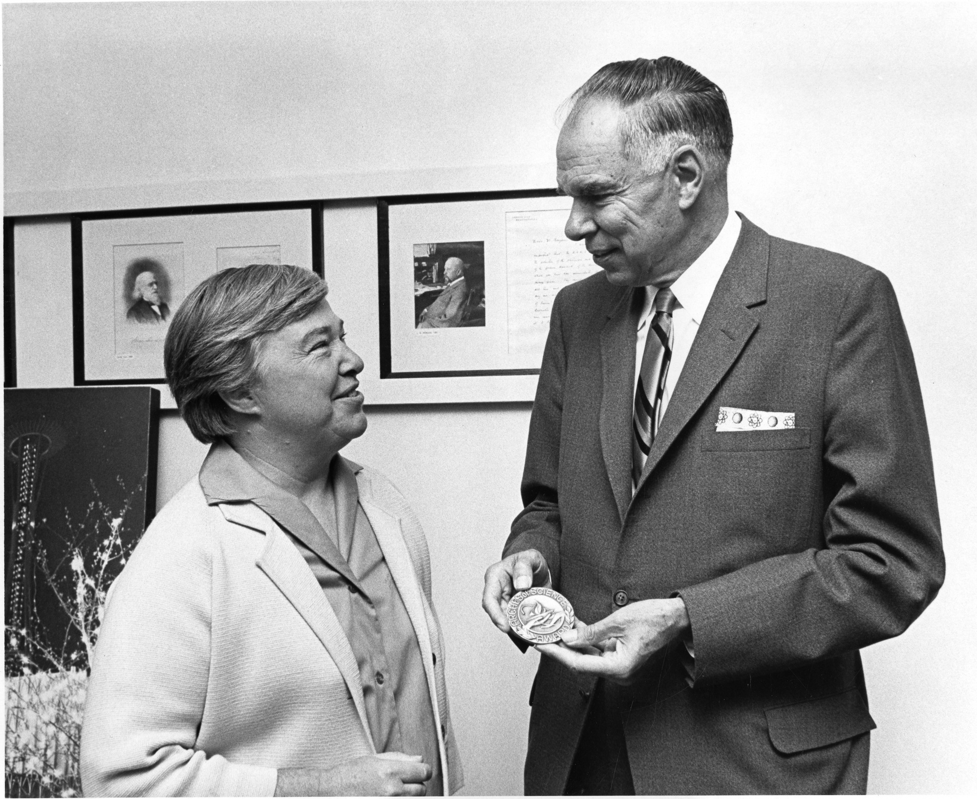 Subject: Ray, Dixy Lee Seaborg, Glenn Theodore 1912-1999 University of Washington Pacific Science Center U.S. Atomic Energy Commission Type: Black-and-white photographs Date: 1968 9/17/1968 Topic: Marine biology Chemistry Women scientists Local number: SIA Acc. 90-105 [SIA2009-3053] Summary: left to right: Marine biologist Dixy Lee Ray (1914-1994) and chemist Glenn Theodore Seaborg (1912-1999), September 17, 1968. Ray left a professorship at University of Washington to be director of the Pacific Science Center in Seattle, 1963-1972. When this photograph was taken in September 1968, Seaborg was receiving the Arches of Science award sponsored by the science center. Ray later served as chairman of the U.S. Atomic Energy Commission, 1973-1975, and as governor of Washington State, 1977-1981 Cite as: Acc. 90-105 - Science Service, Records, 1920s-1970s, Smithsonian Institution Archivess Persistent URL:Link to data base record Repository:Smithsonian Institution Archives View more collections from the Smithsonian Institution.